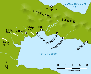 Part of Milne Bay that was the focus of the Battle of Milne Bay, September 1942. Note: no two maps of this area agree in topography or nomenclature. Please contact the author SpoolWhippets (talk) 04:22, 3 April 2010 (UTC) if you have corrections.